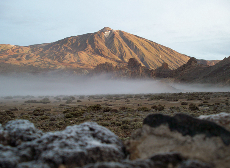 Teide, Canary Islands, at dawn in March